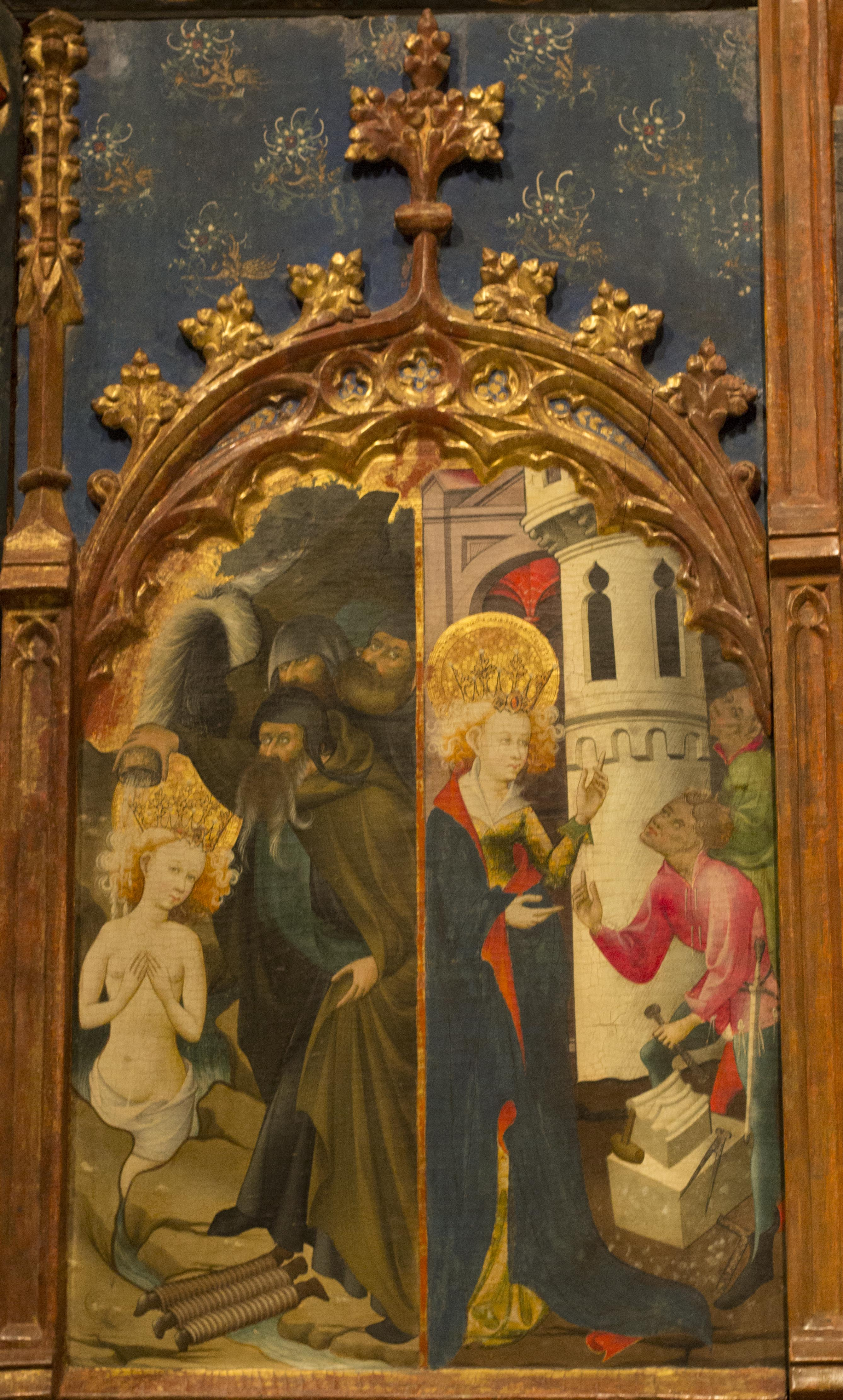 Altarpiece of Saint Barbara, By Gonçal Perris. Museu Nacional d'Art de Catalunya.